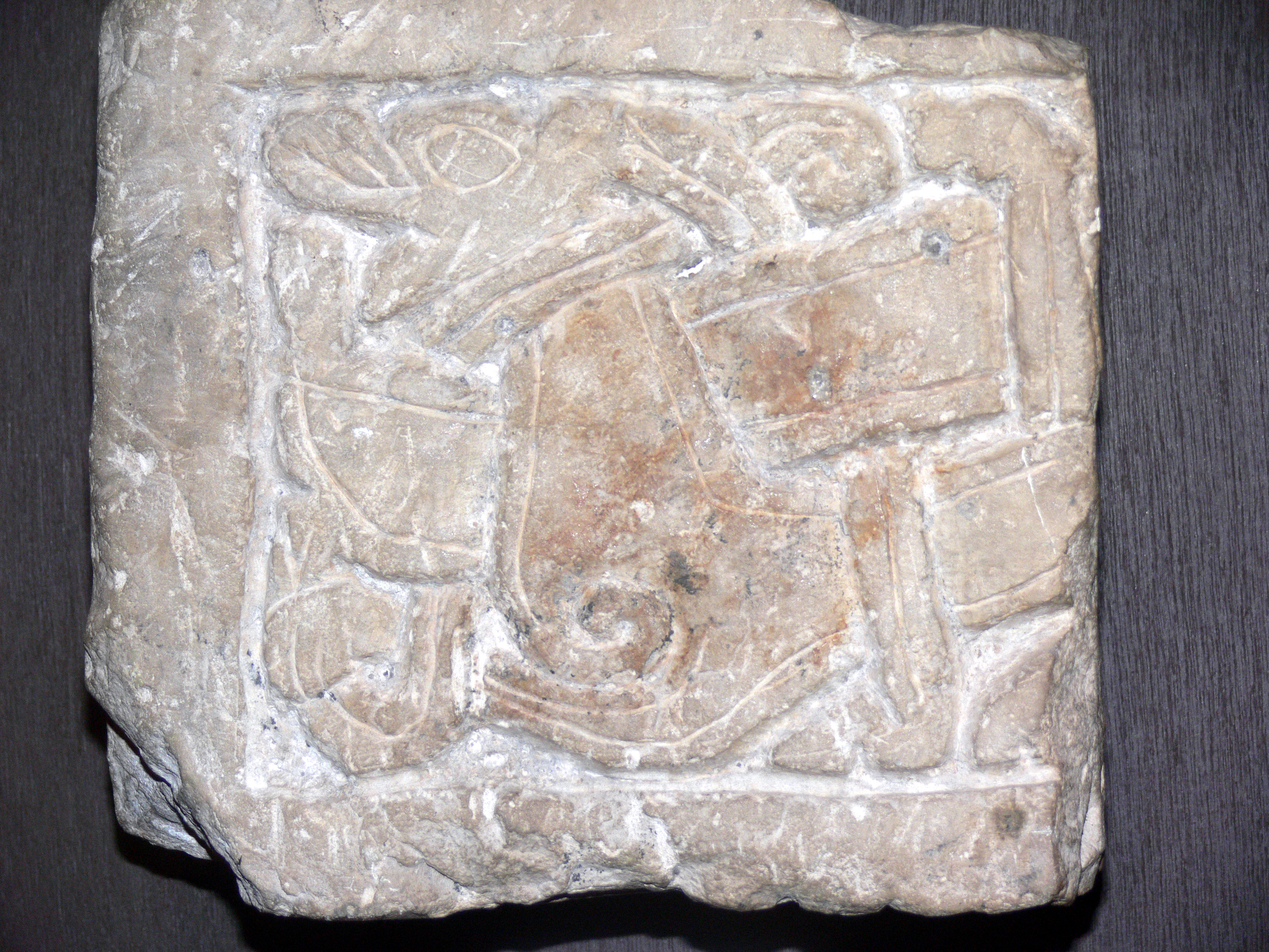 Bildstein vom sog. "The York Master". Yorkshire Museum in York.